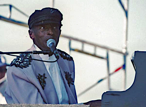 Charles Brown at the Long Beach Blues Festival